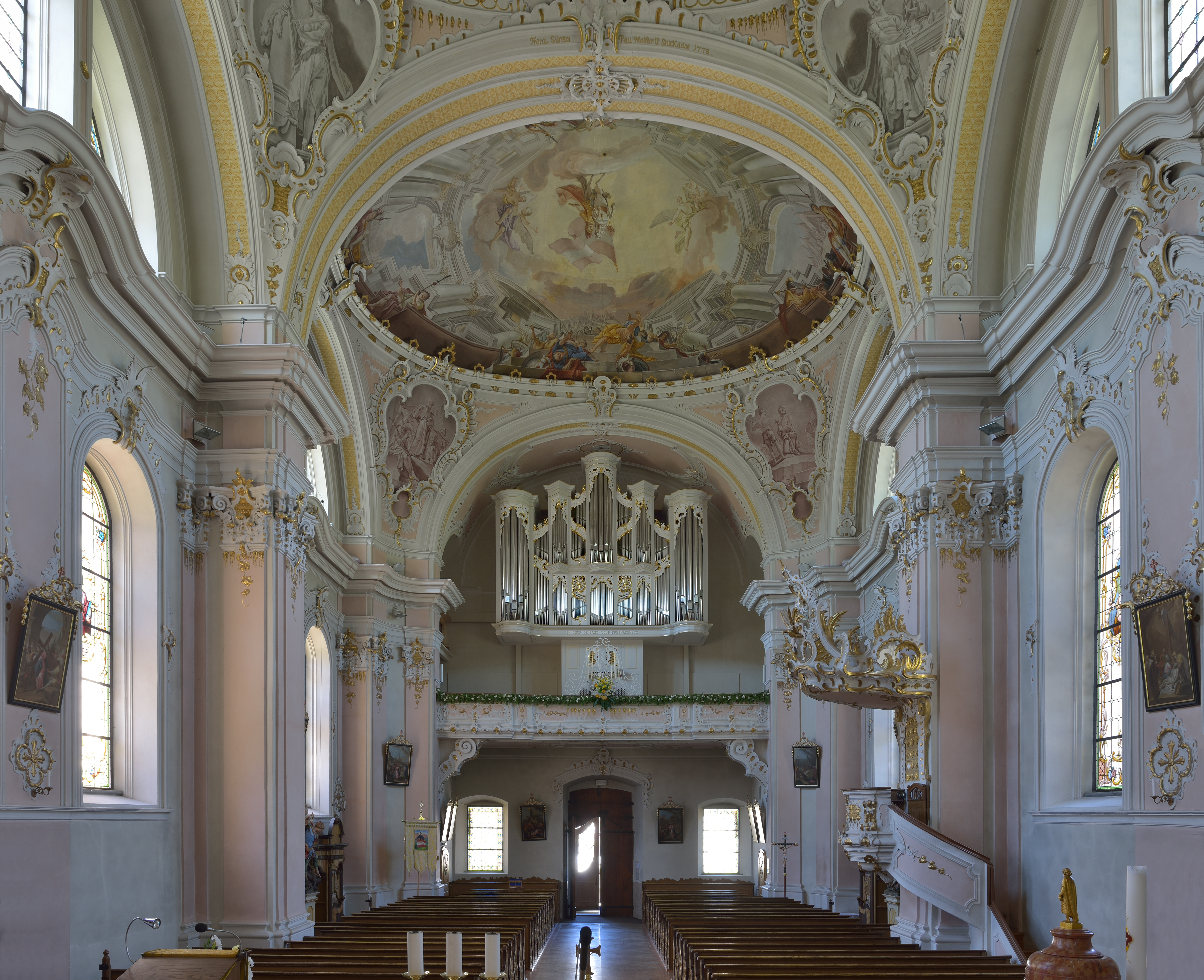 Organ (built 2013) in the parish church of Saint James and Saint Leonard in San Linert